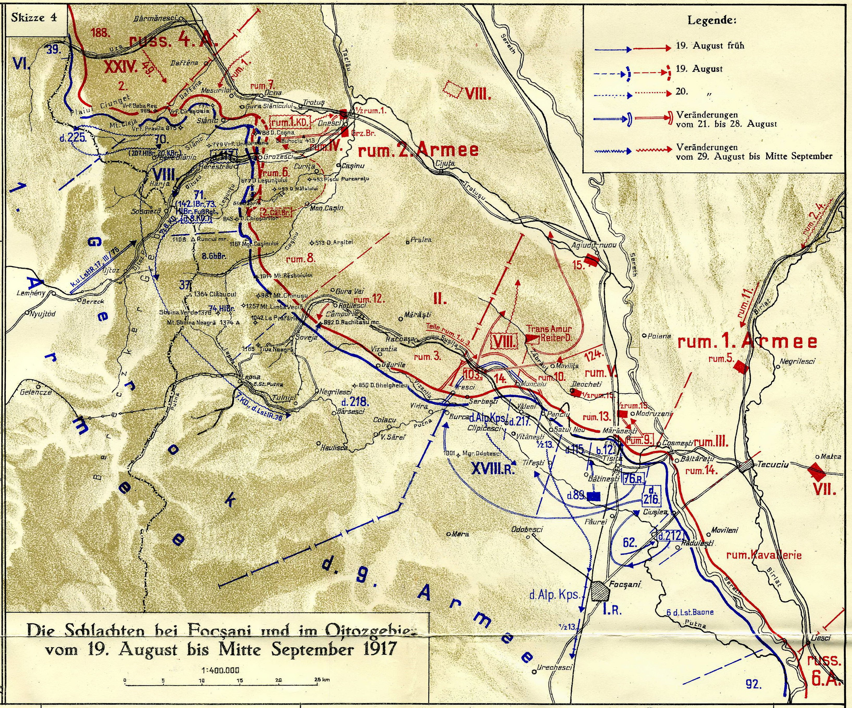 Romanian Front in WWI - The second phase of the battle from Mărășești, august-septembrie 1917